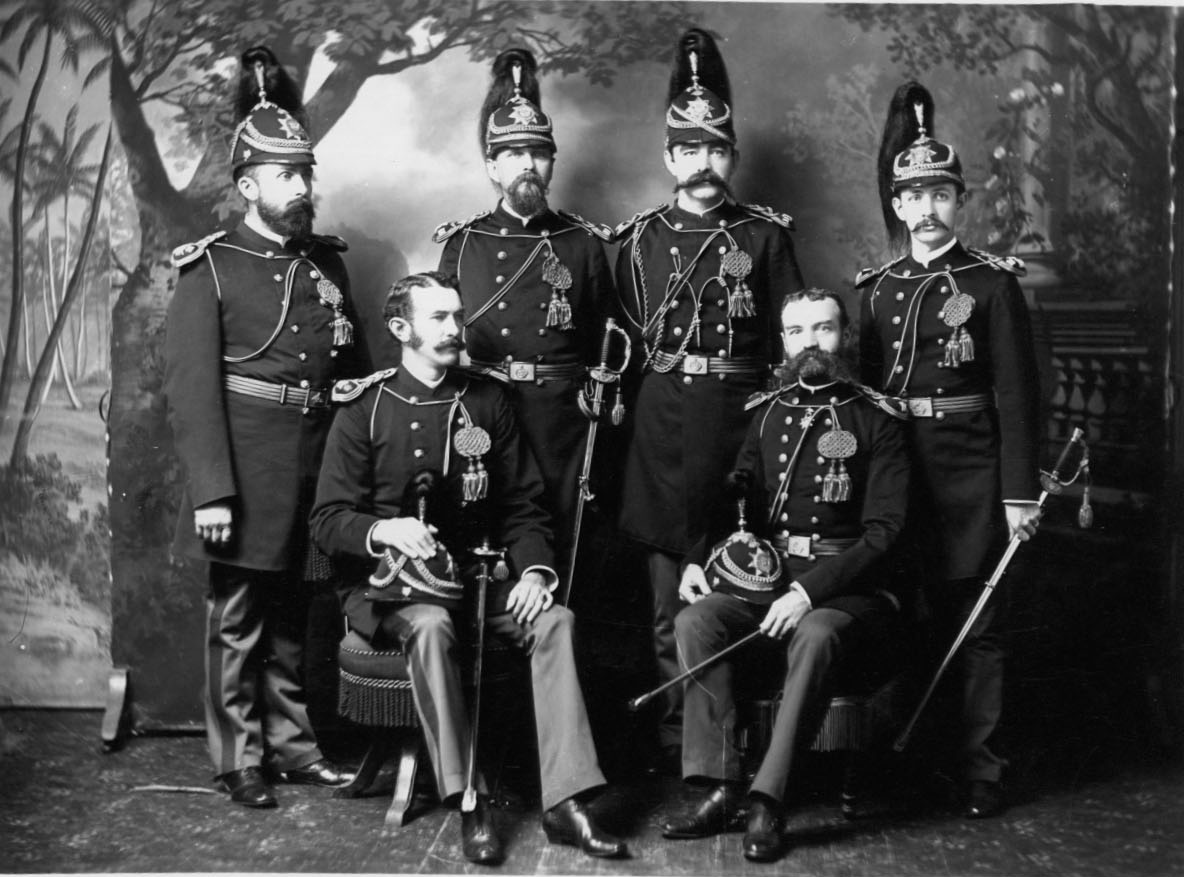 The Honolulu Rifles in full uniform.